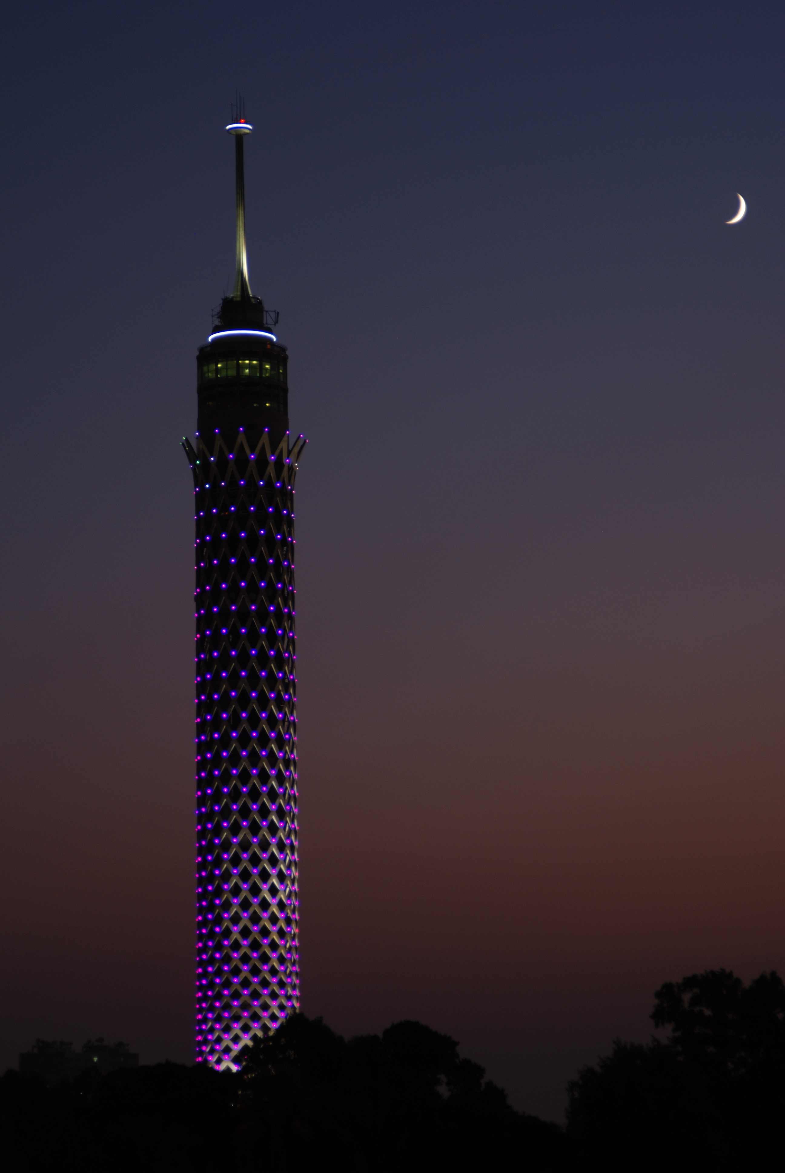 Cairo Tower at Night